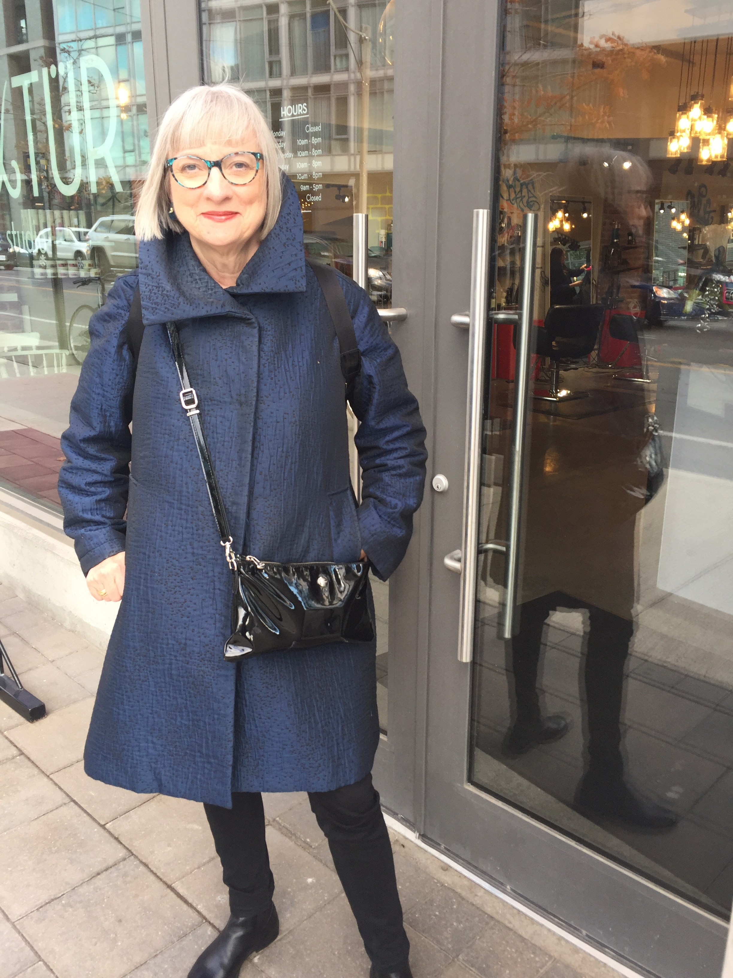 A photo captured by Trish James.